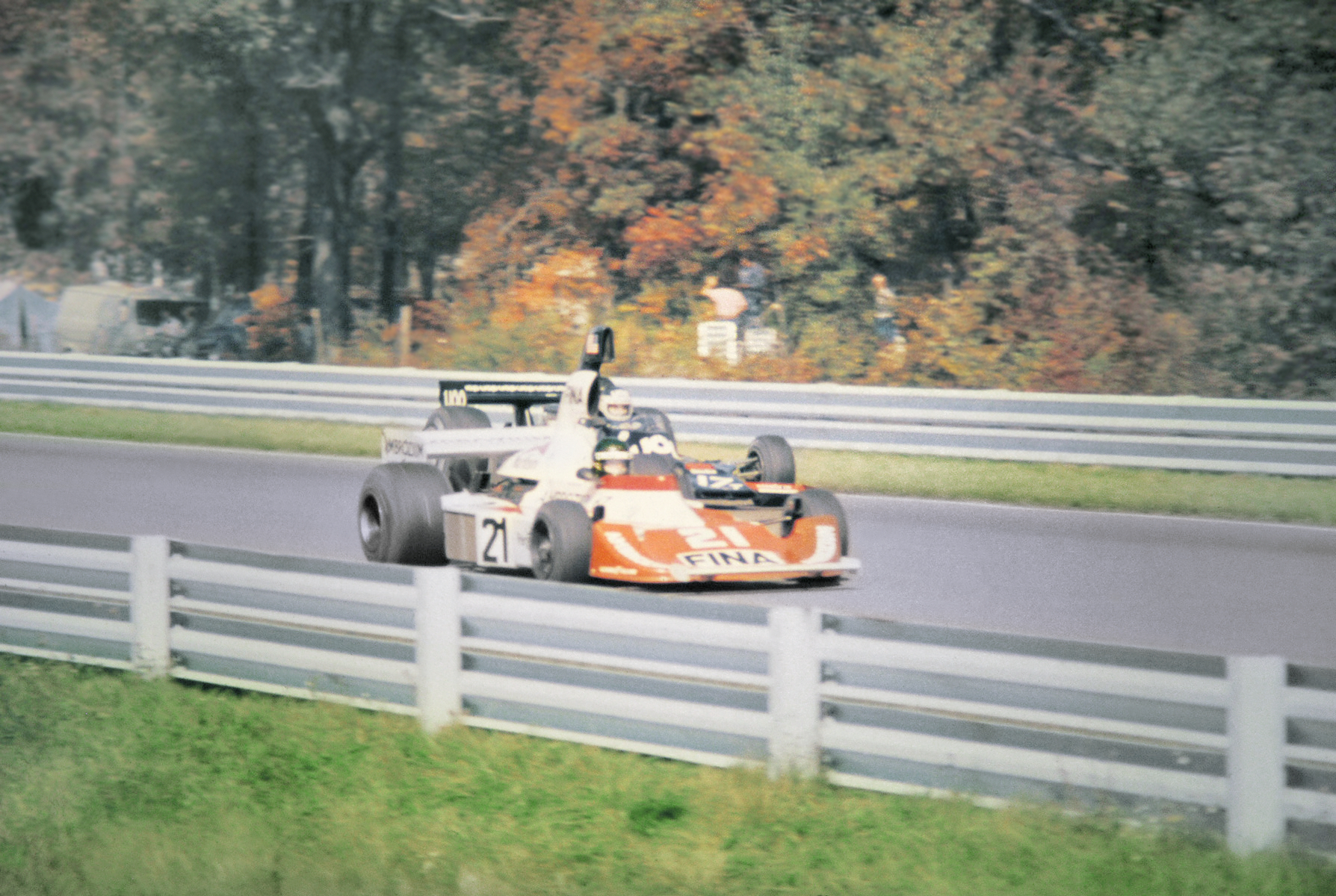 Jacques Laffite, driving his Williams Ford, being followed by the UOP Shadow Ford of Jean-Pierre Jarier at the 1975 United States Grand Prix.